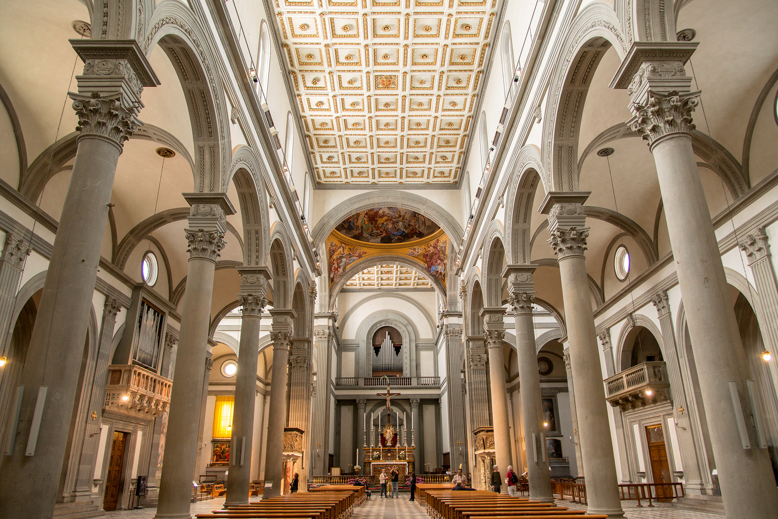 The interior of the basilica